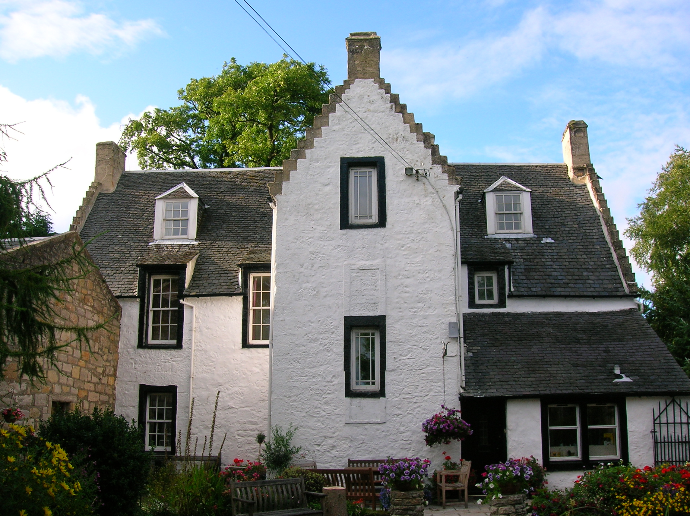 The 2009 entrance side of Kilmaurs Place. East Ayrshire, Scotland.